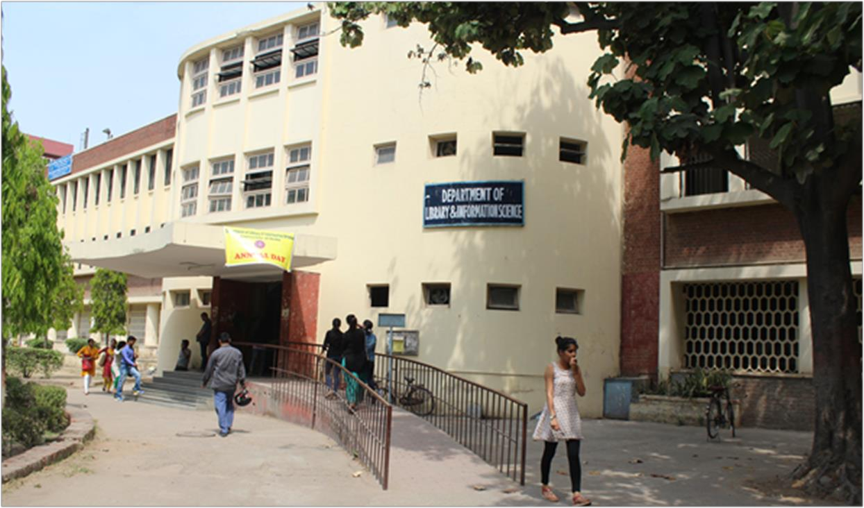 DLIS, University of Delhi